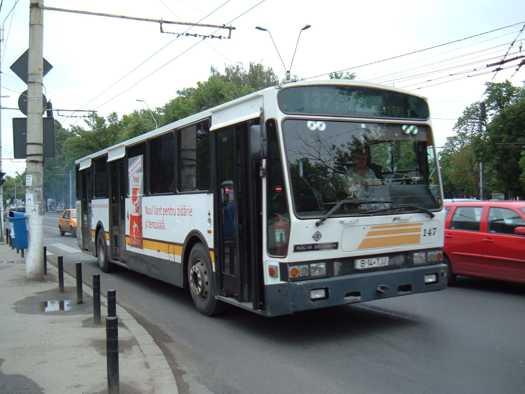 Public bus in Bucharest, Romania (Rocar De Simon U412-260 type). RATB București company.